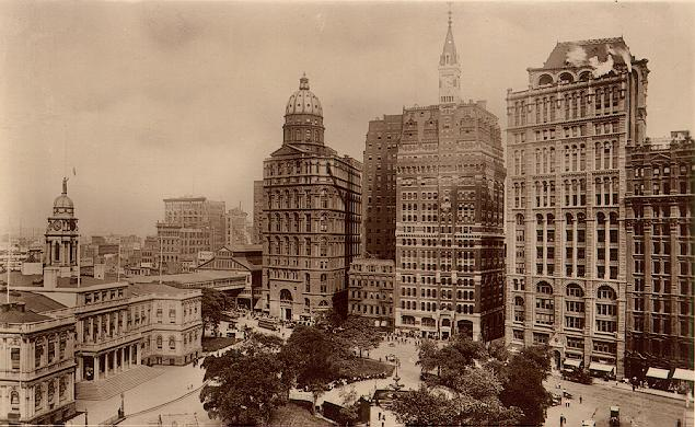 C. 1900 Park Row in New York City was known as Newspaper Row during the late 19th century. From Left to Right: Bottom-Left is the City Hall of the City of New York, the New York World Building (with the spherical top) which housed the The New York World newspaper, The New York Tribune building with the spire top (today the site of the Pace Plaza complex of Pace University), The New York Times Building (the 19th Century home of the New York Times, today one of the buildings of Pace University), and to the far right - cut off from the picture - the Potter Building.